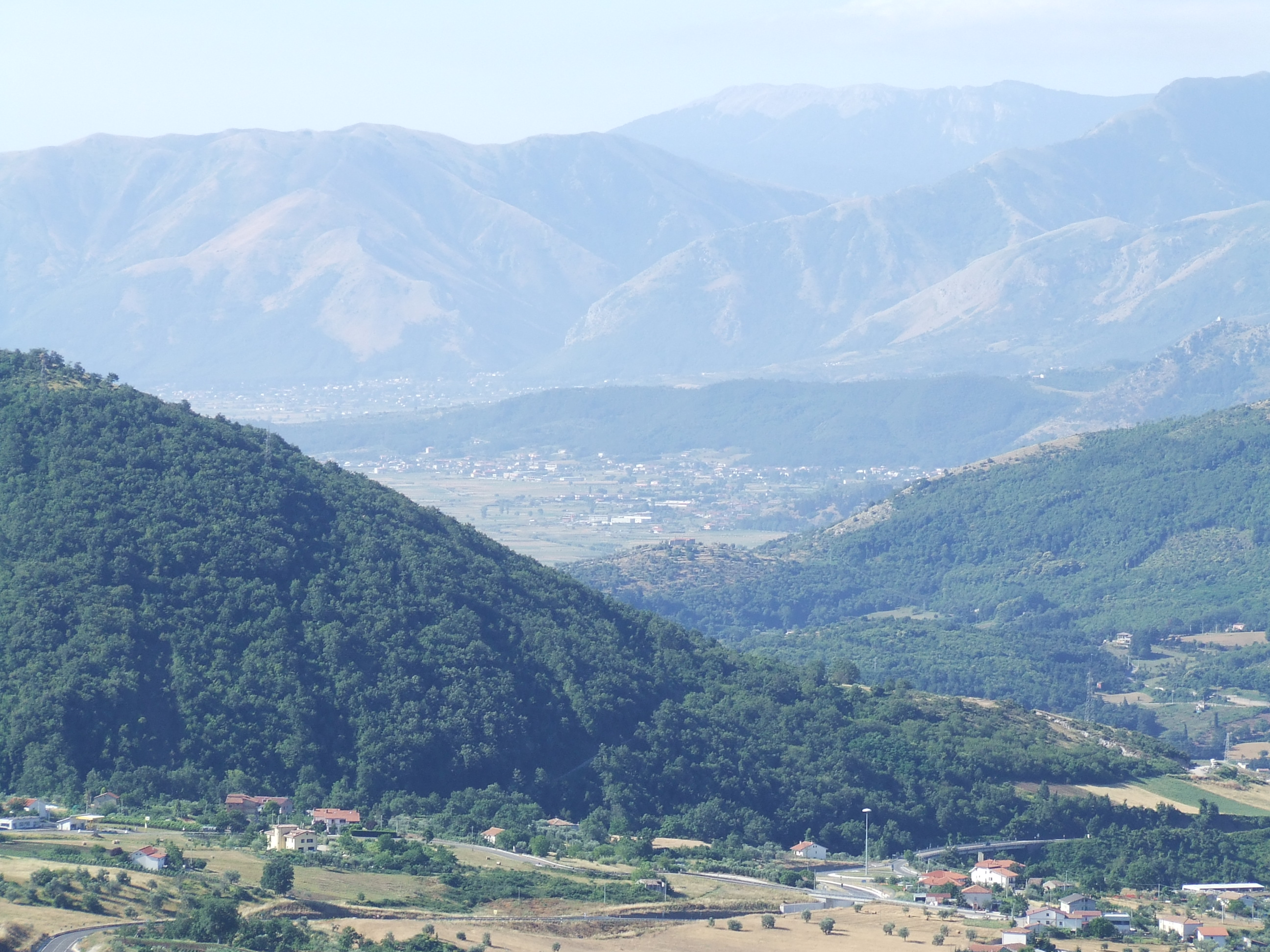 View of the Alburni (mnts.) and Vallo di Diano — with Caggiano (foreground). In Cilento and Vallo di Diano National Park — in Campania.